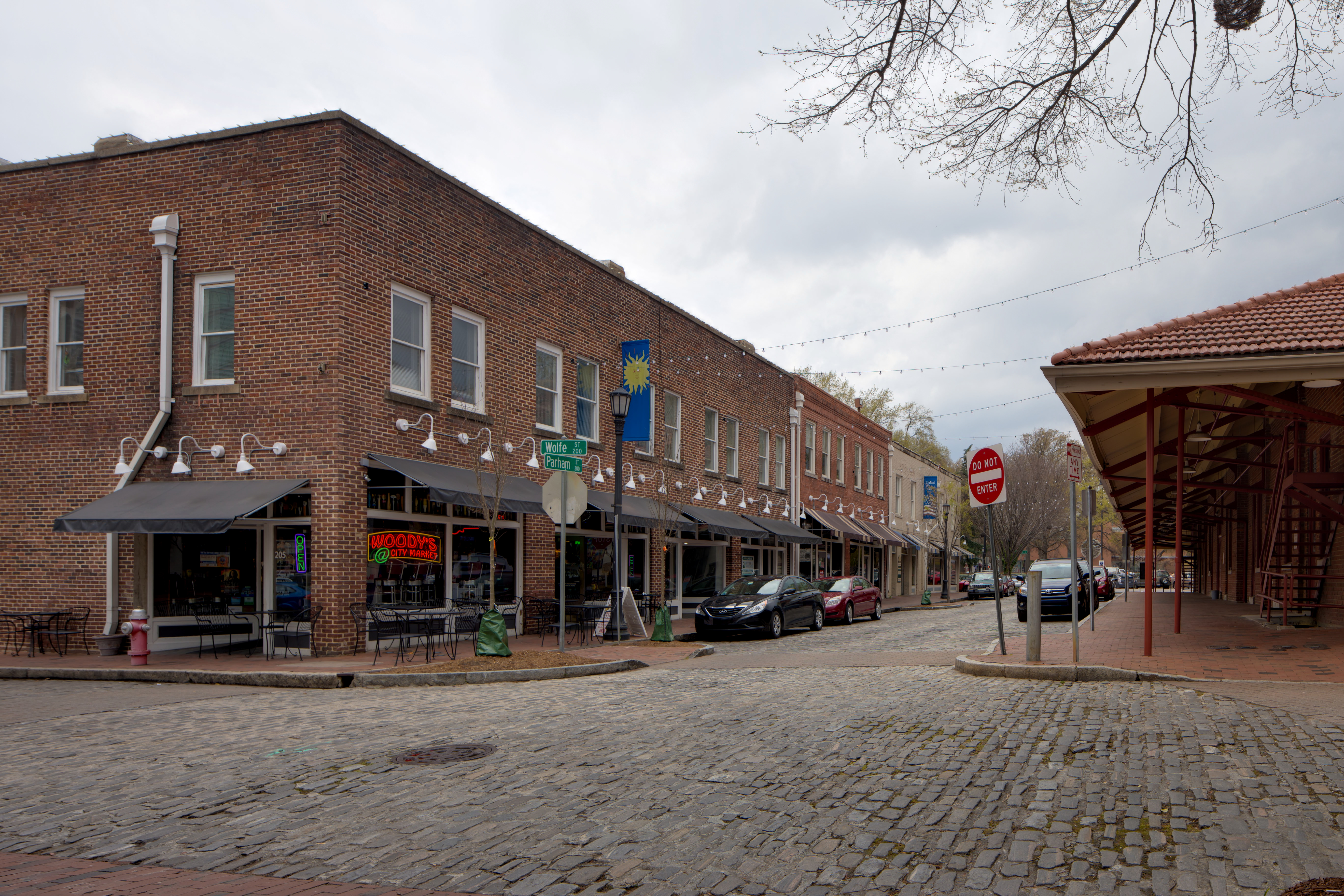 City Market in Raleigh, NC Taken using a Canon 6D with Canon TS-E 24mm f/3.5L II lens. 3 image HDR.